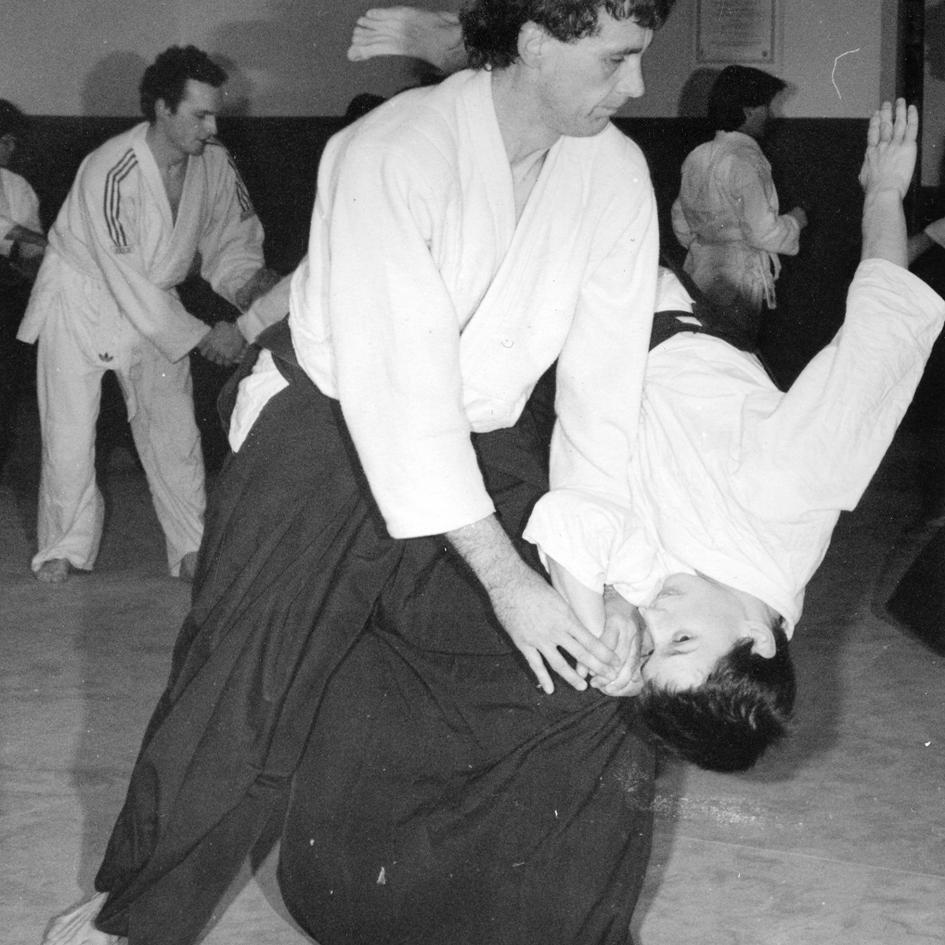 Shihoo nage, a aïkido technical falling, illustred by a personal photography. The faller (uke) is Ygonaar, a french Wikipédia contributor. This picture is used for a aïkido personal box, in my french user page. It's appropriate for martial art and aïkido classes.